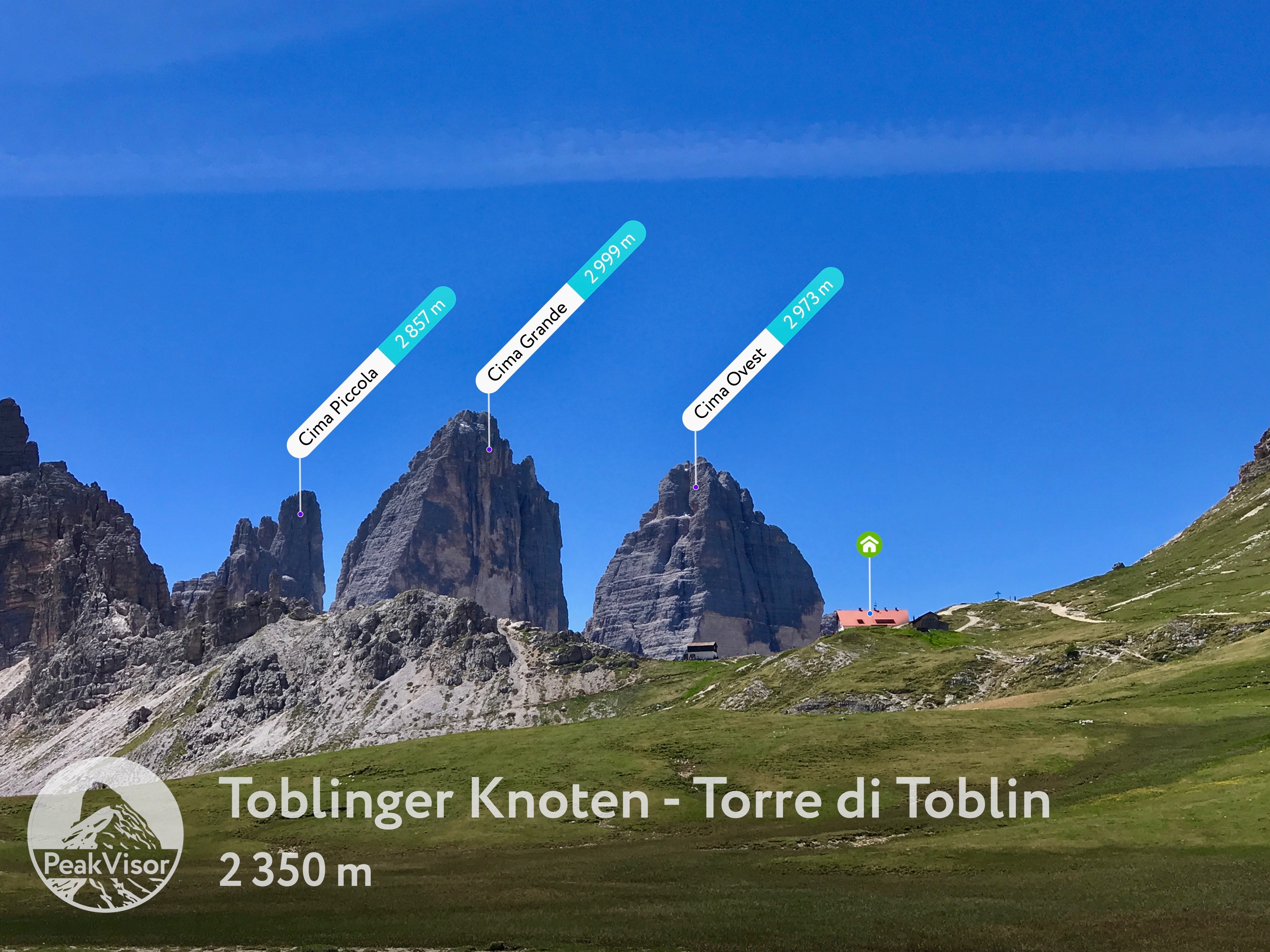 The photo of Tre Cime was made at the foot of Torre di Toblin mountain